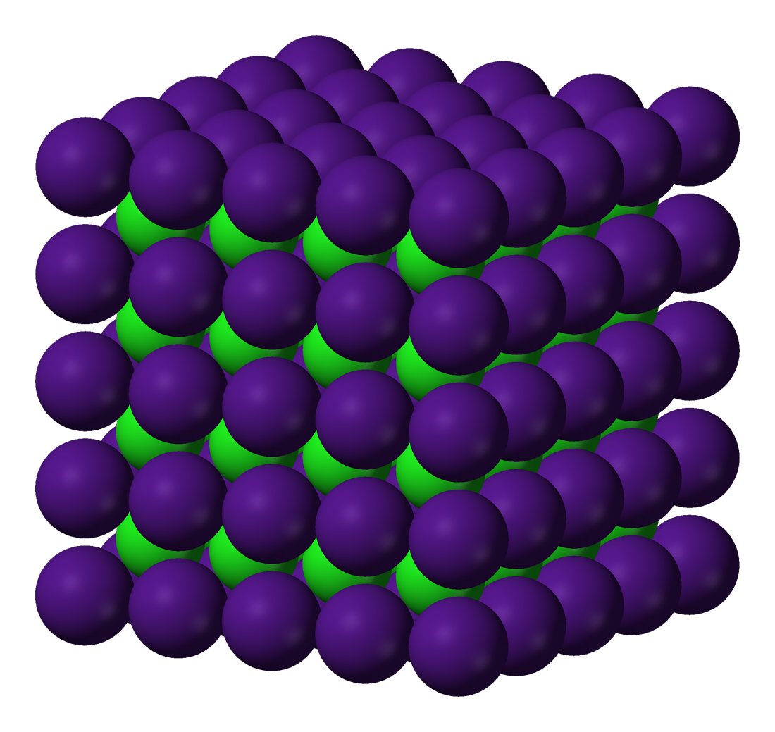 The crystal structure of caesium chloride, CsCl, a typical ionic compound. The __ purple spheres represent caesium cations, Cs+, and the __ green spheres represent chloride anions, Cl−.